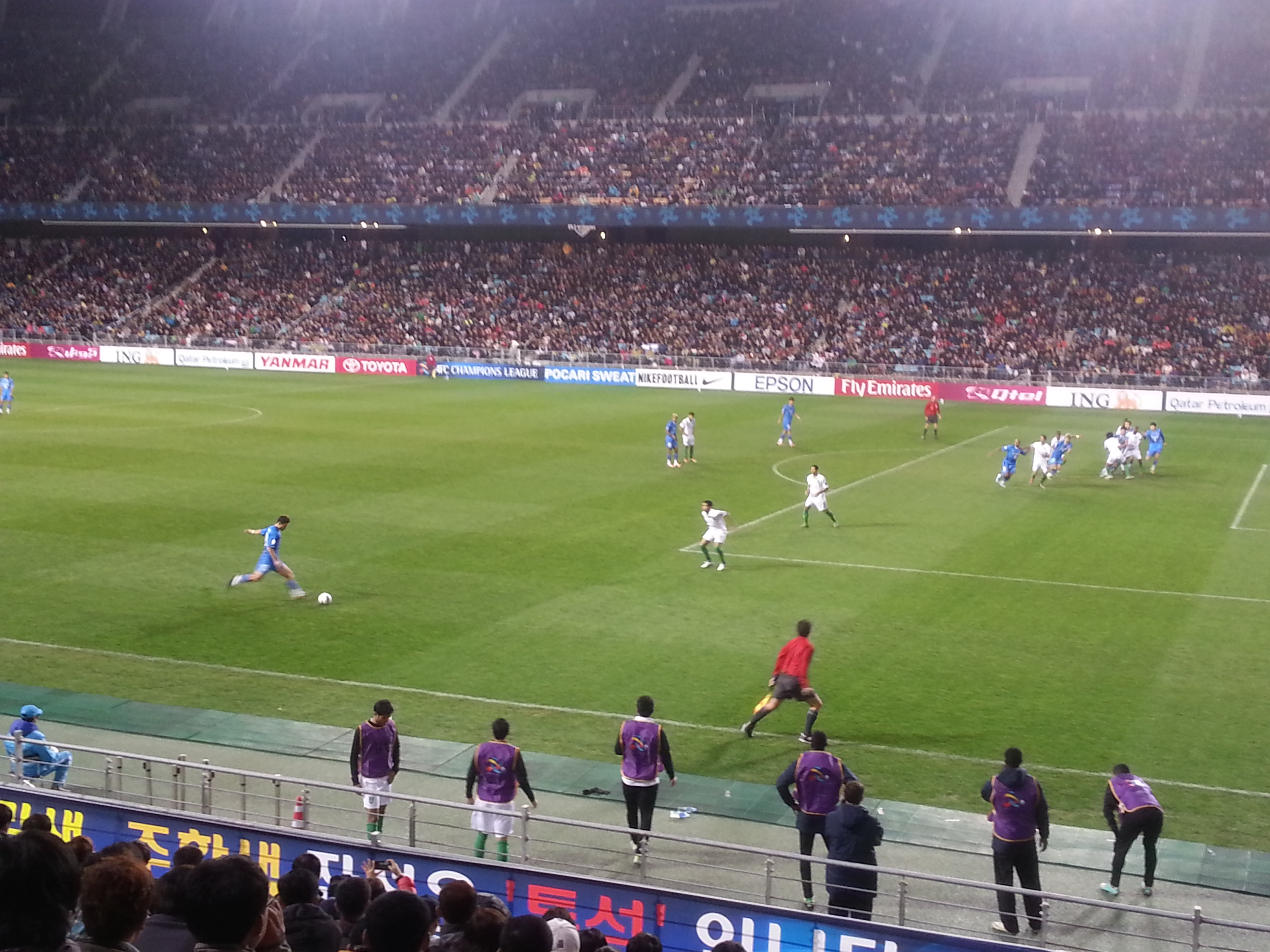 AFC Champion Legue 2012 Final